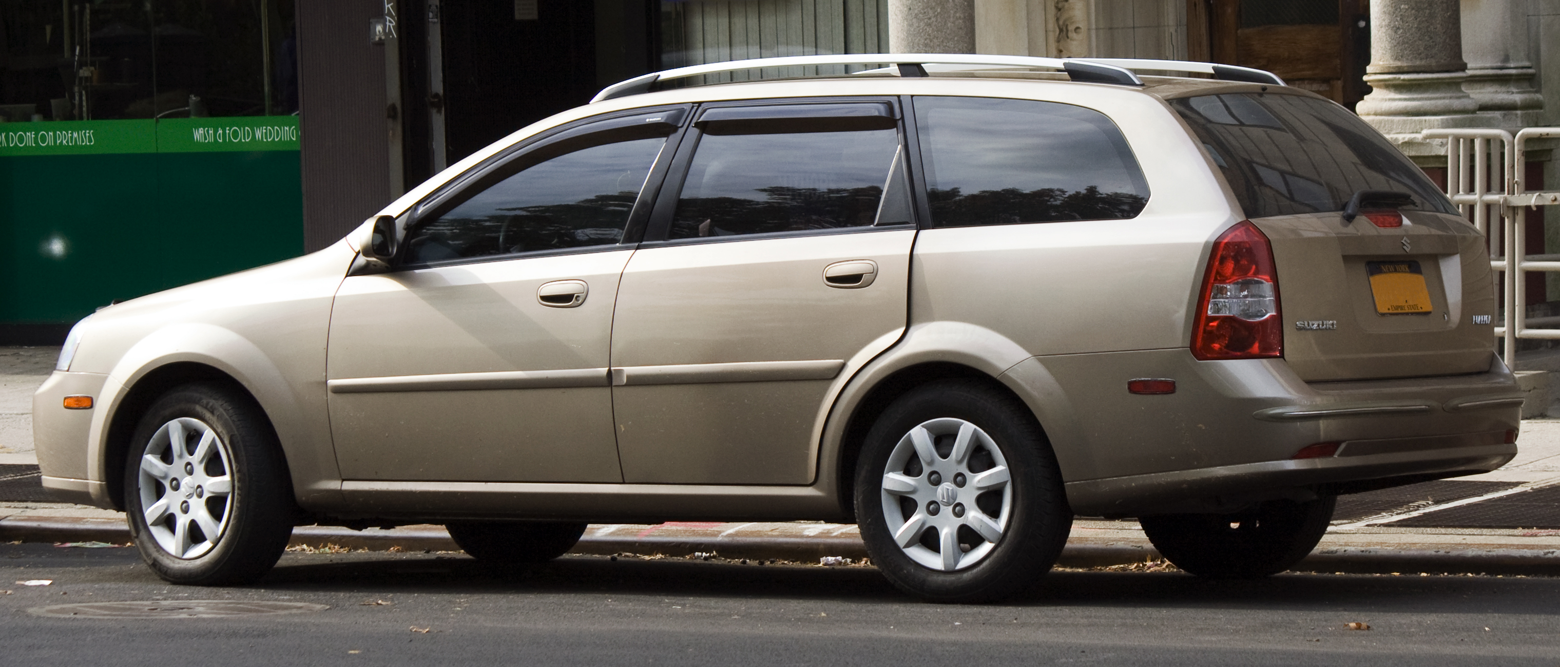 2005 Suzuki Forenza Wagon (a relabelled Daewoo Lacetti for the North American market)